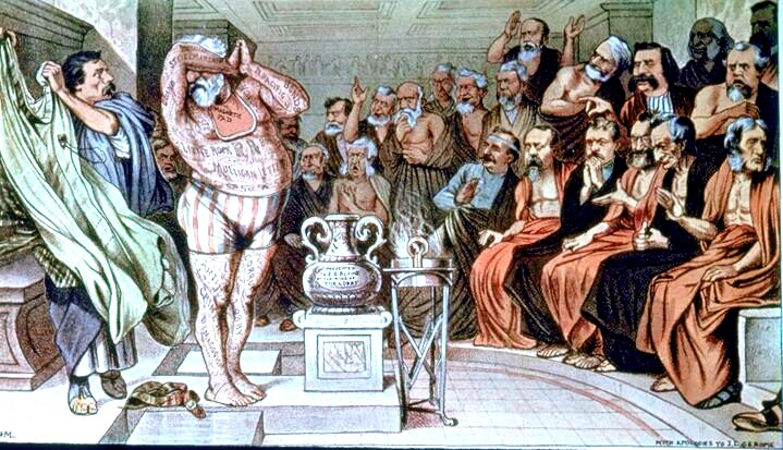 1884 US political cartoon showing James G Blaine as a tattooed man (based on J.-L. Gerome's painting of Phryne; see File:Gérôme, Jean-Léon - Phryne vor den Richtern - 1861.jpg ); scanned from paper copy in Puck magazine